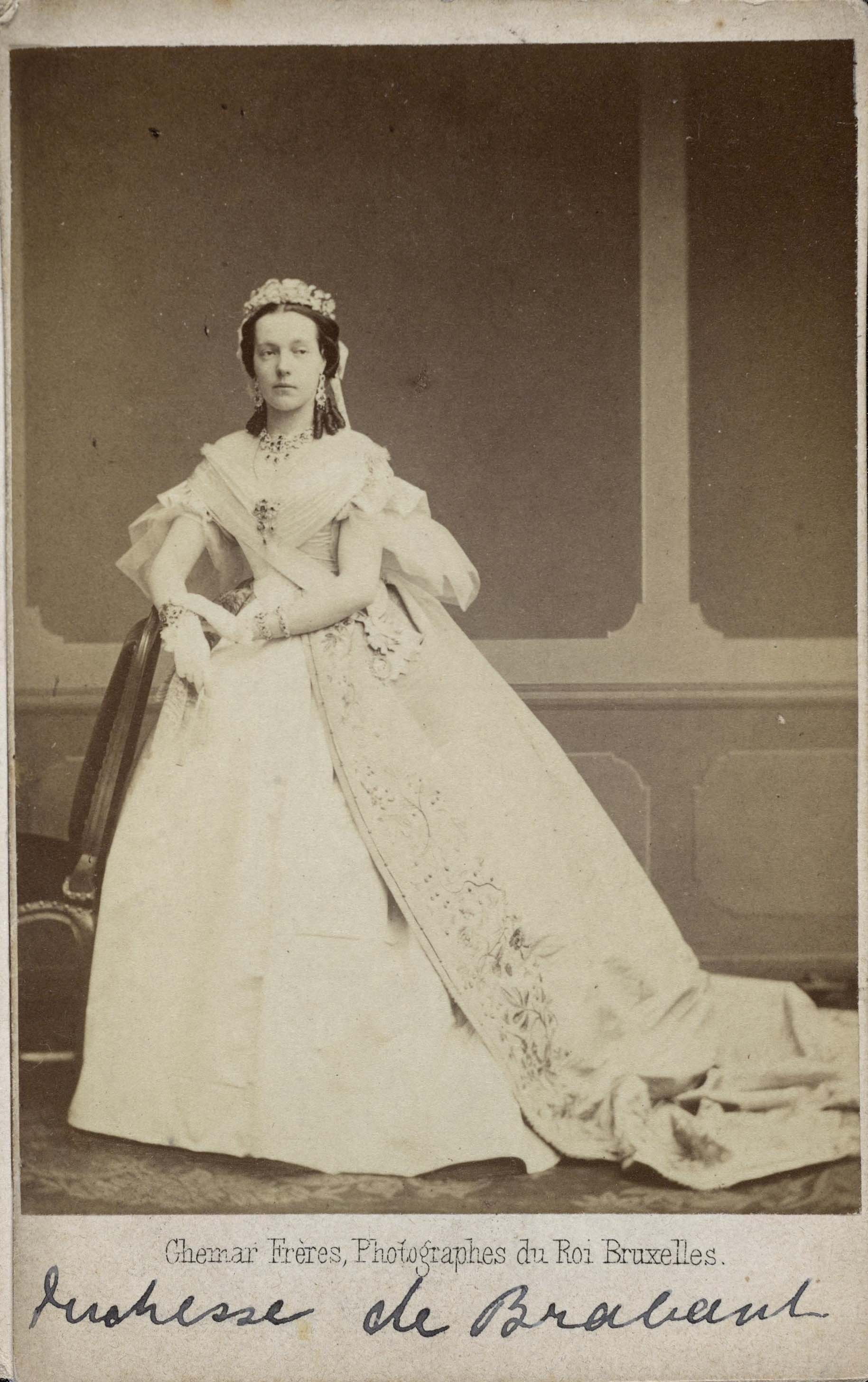 Marie Henriette, Erzherzogin von Österreich, duchesse de Brabant 1836 - 1902